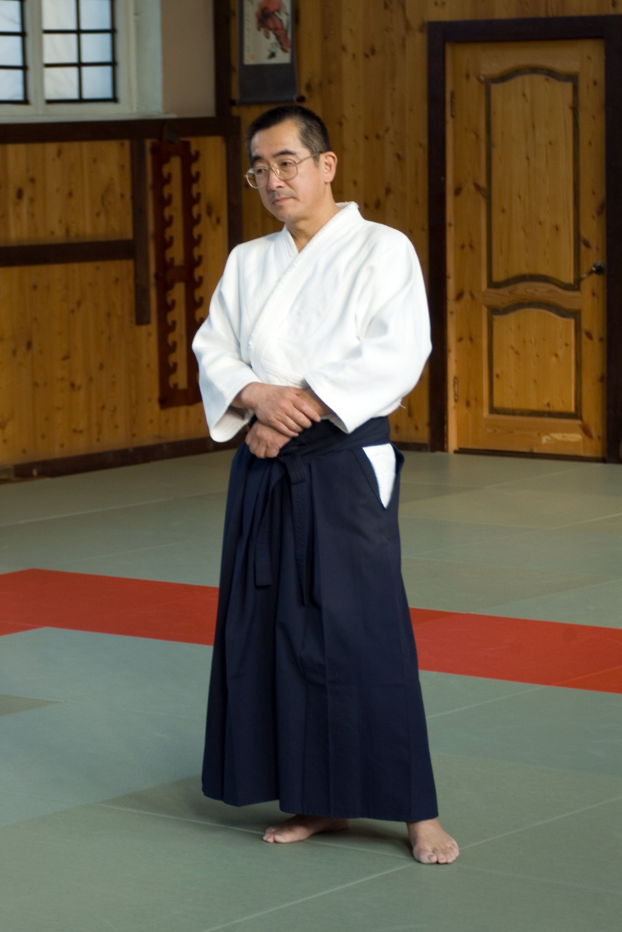 Chida Tsutomu — 8th dan Yoshinkan Aikido, former Dojo-cho Yoshinkan Honbu Dojo, Soke Renshinkai Aikido. This photo was shot during Renshinkai Aikido Seminar in Moscow, Russia, 5 October 2008.